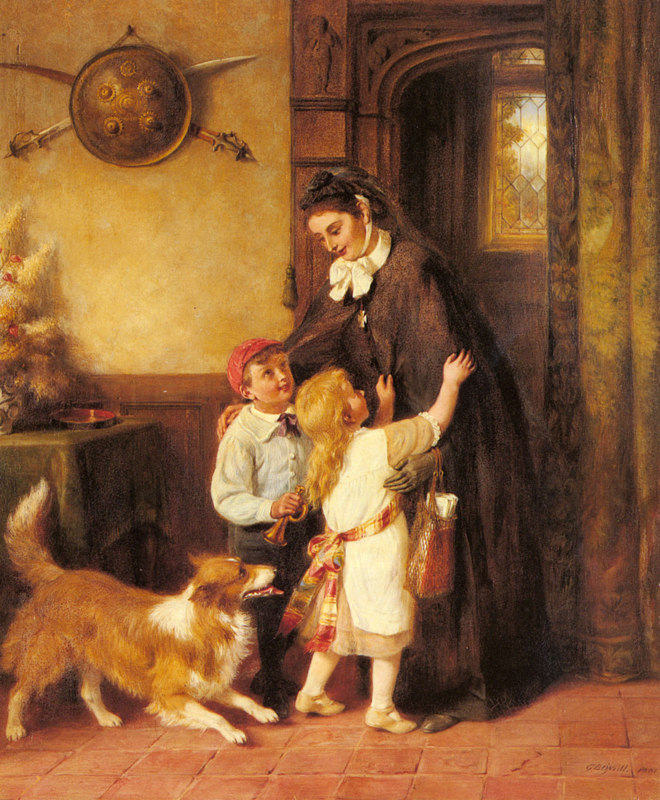 "A Joyful Welcome" Oil on canvas